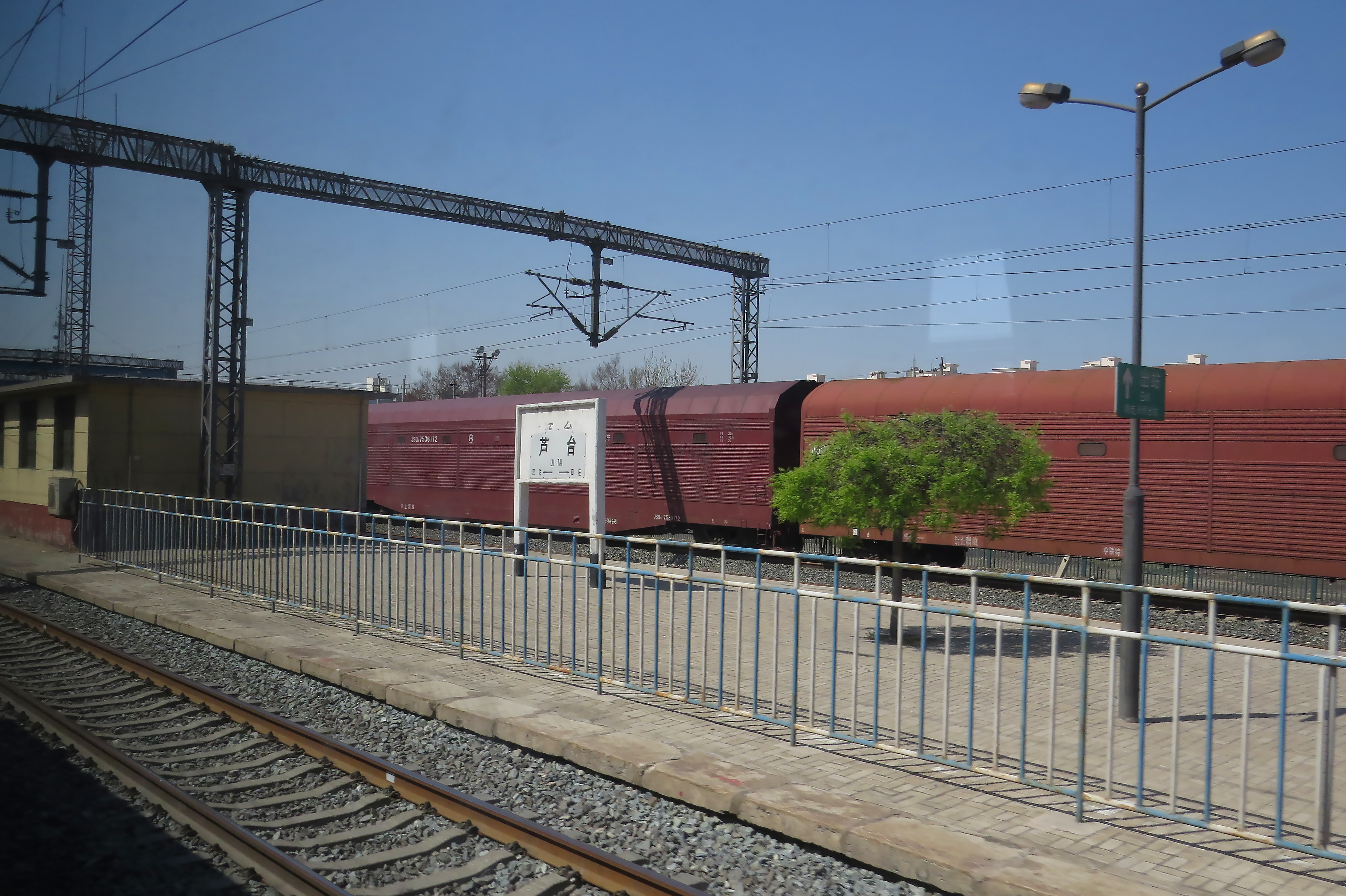 Now we entered Tianjin.